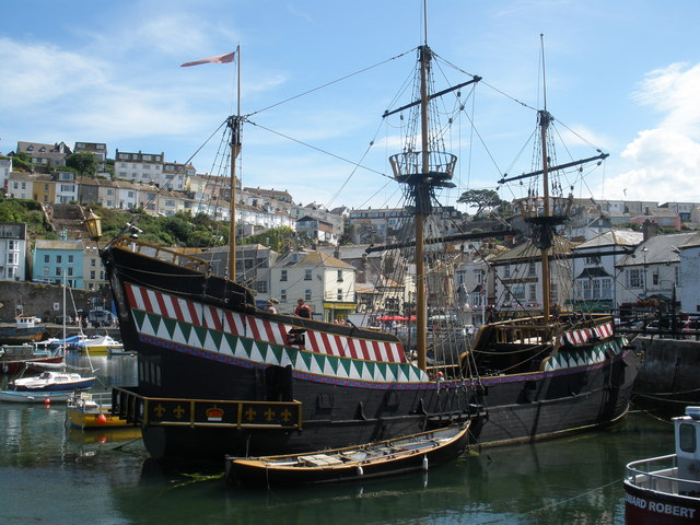 Replica of the Golden Hind, Brixham